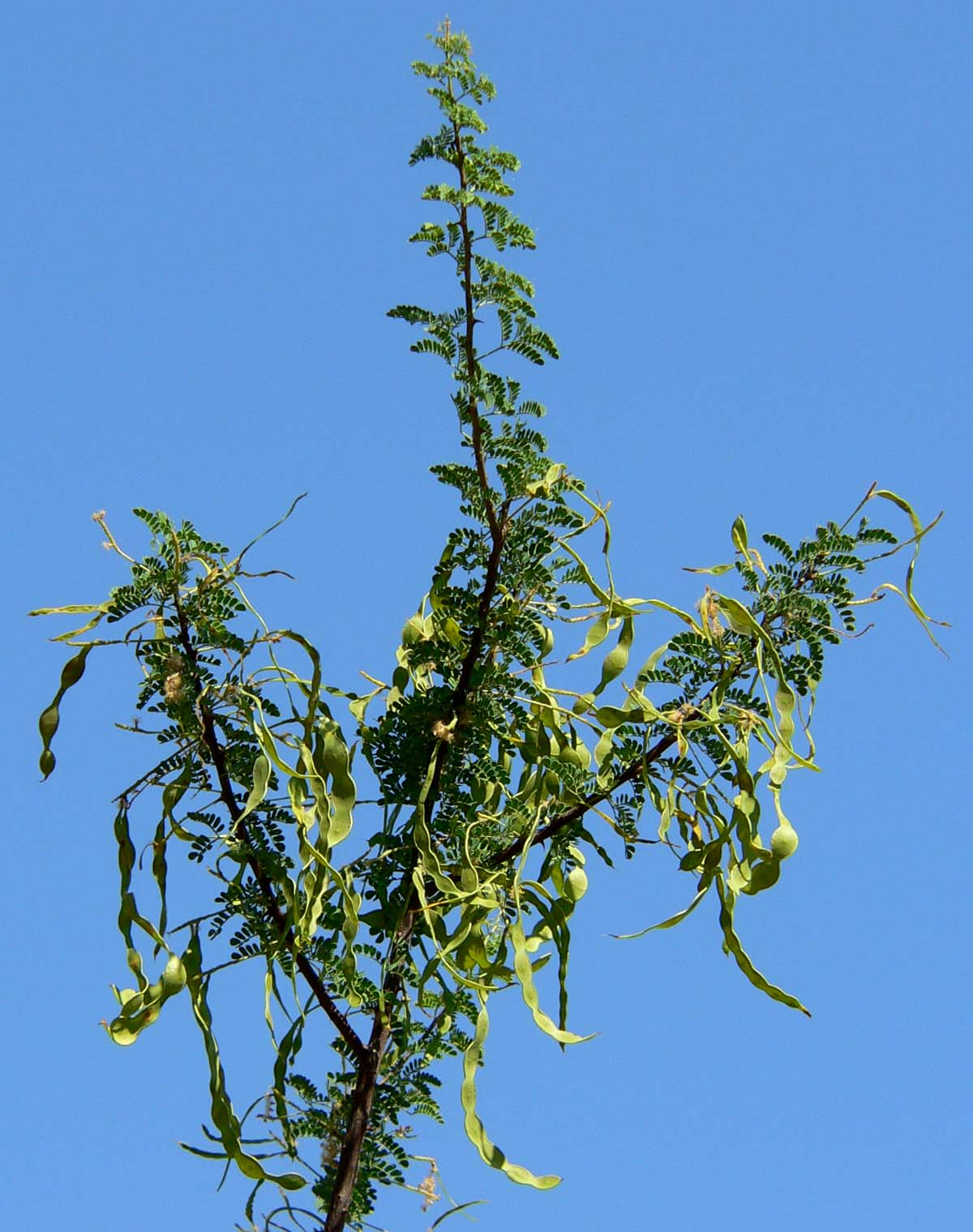 Photo of Acacia greggii branch at the Springs Preserve garden in Las Vegas